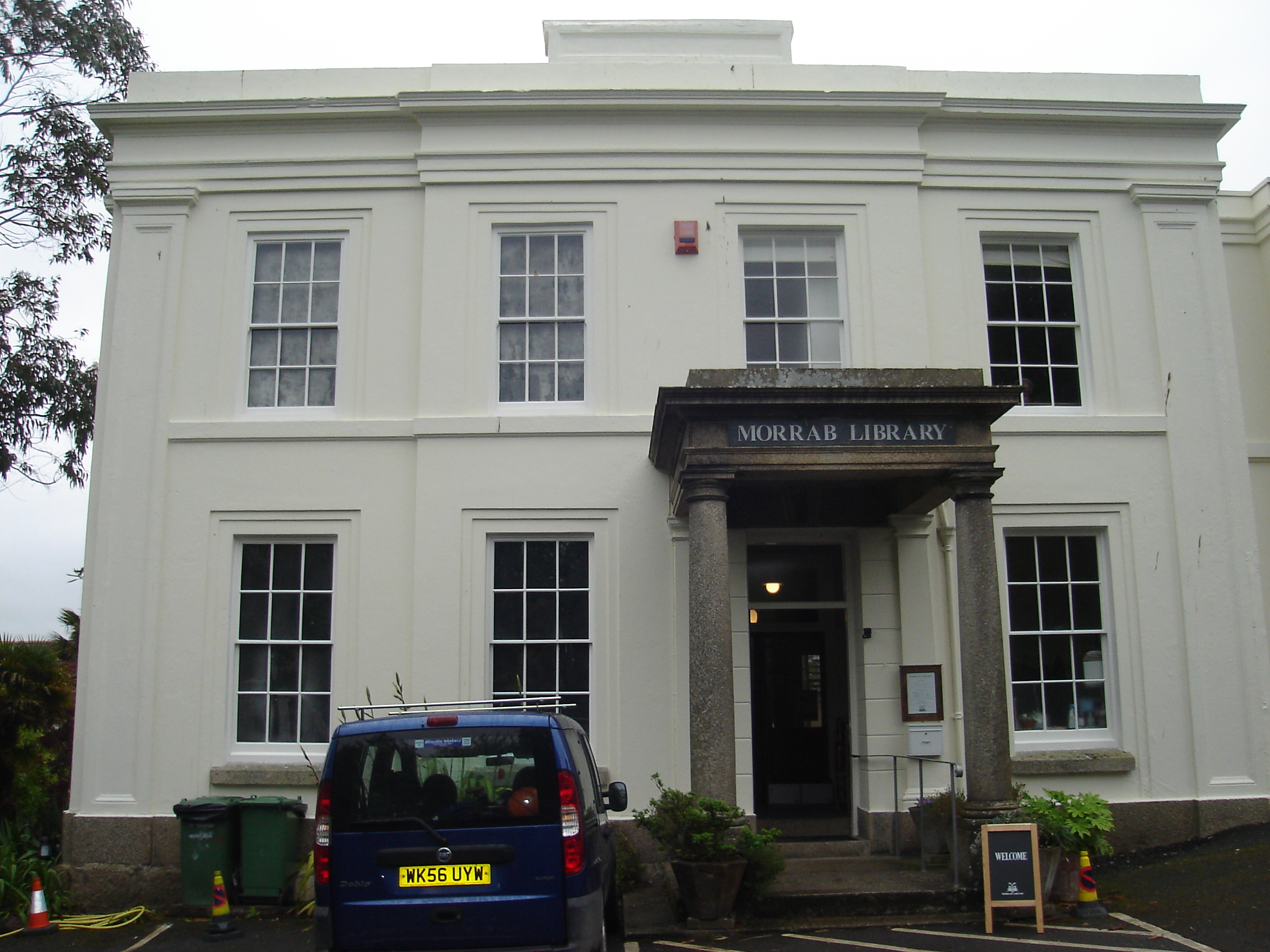 A view of Morrab library. The library is located in the grounds of Morrab Gardens, Penzance, Cornwall